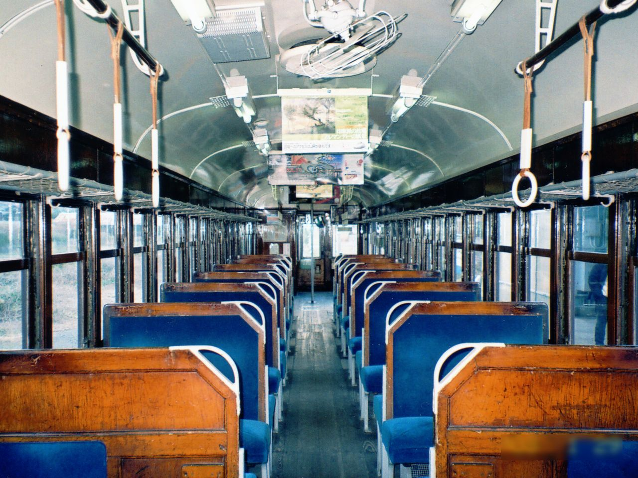 West Japan Railway Company , EMU type 42 "Motoyama Line" at Nagato Motoyama Sta.